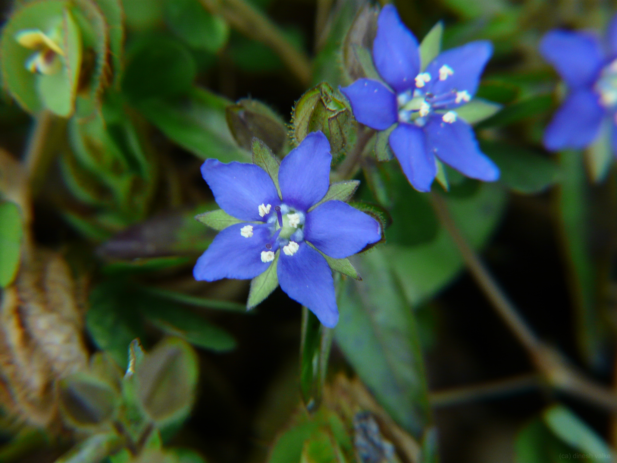 Hydrophyllaceae (waterleaf family) » Hydrolea zeylanica hy-DRO-lee-uh -- from the Greek hydro (water) and eleia (olive) zey-LAN-ee-kuh -- of or from Ceylon (Sri Lanka) commonly known as: blue waterleaf, Ceylonese hydrolea, water olive • Bengali: isa-langulia, kasschra •